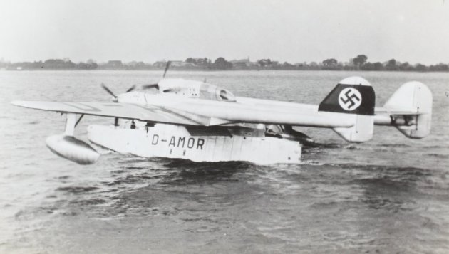 PictionID:38234822 - Catalog:Array - Title:Array - Filename:15_002283.TIF - -------Image from the Charles Daniels Photo Collection.----Album: German Aircraft.-----------PLEASE TAG these images with any information you know about them so that we can permanently store this data with the original image file in our Digital Asset Management System.-----------------SOURCE INSTITUTION: San Diego Air and Space Museum Archive